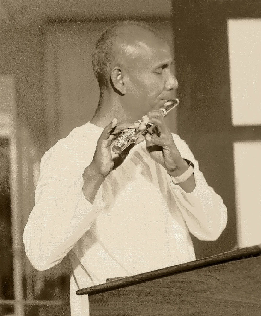 Sri Chinmoy in Bonn, Germany.